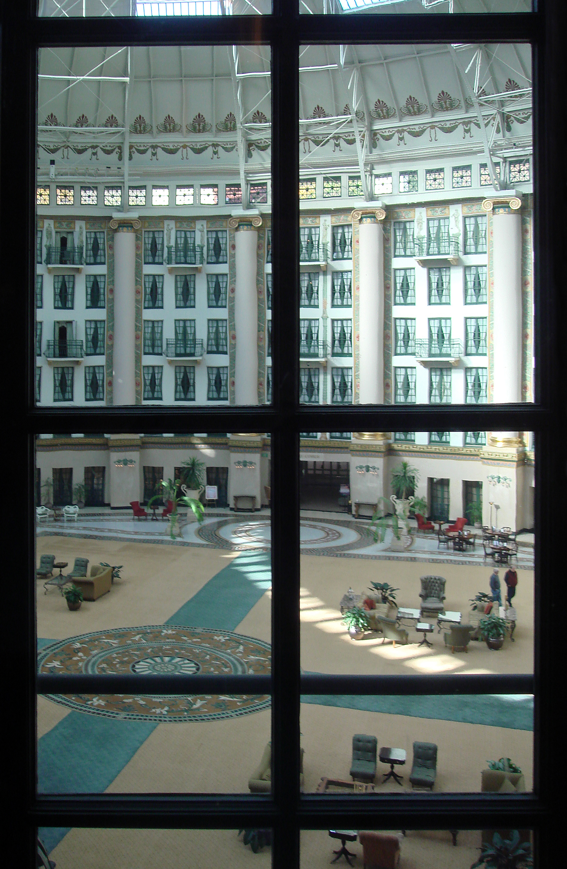 View of West Baden Springs Hotel Rotunda from hotel side